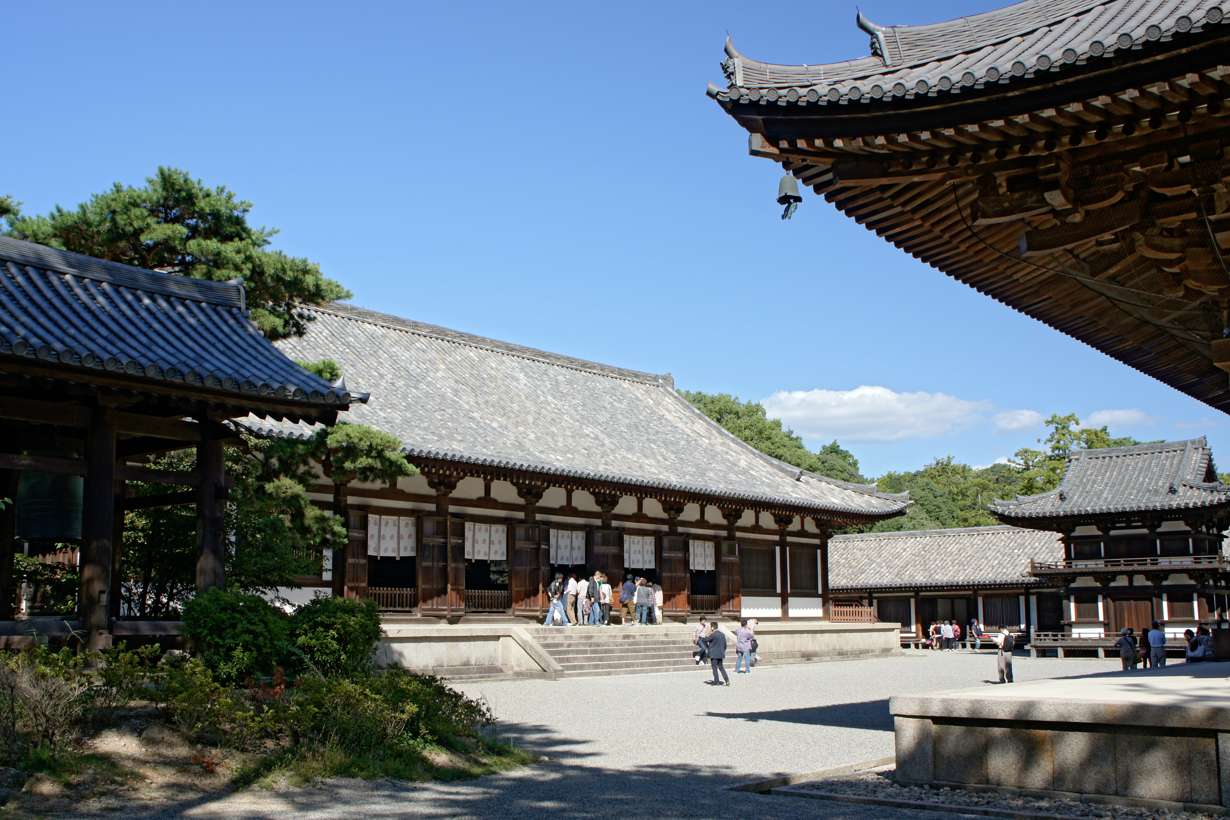 Tōshōdai-ji's Kōdō ( Lecture Hall ) is a Japan's National Treasure in Nara, Nara prefecture, Japan. It was built at the Nara period (AD 710 to 794).